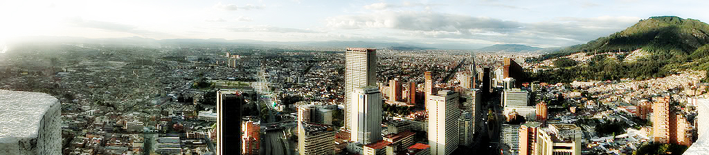 Nice city center